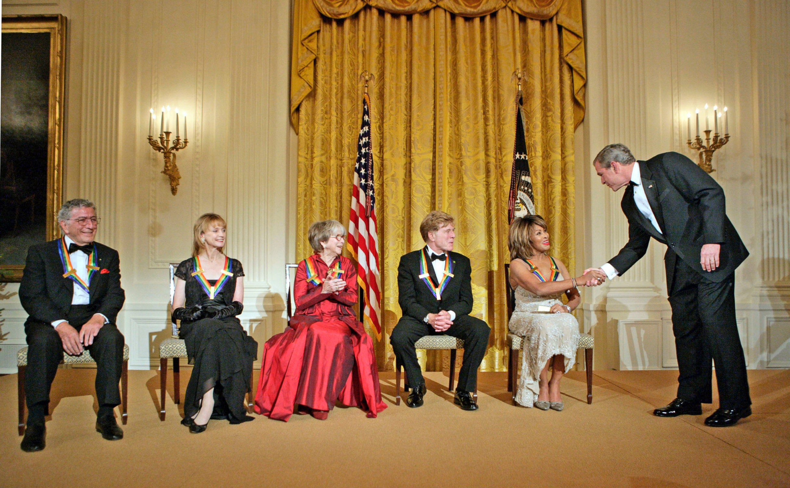 President George W. Bush congratulates Tina Turner during a reception for the Kennedy Center Honors in the East Room of the White House Sunday, December 4, 2005. From left, the honorees are singer Tony Bennett, dancer Suzanne Farrell, actress Julie Harris, actor Robert Redford and singer Tina Turner.